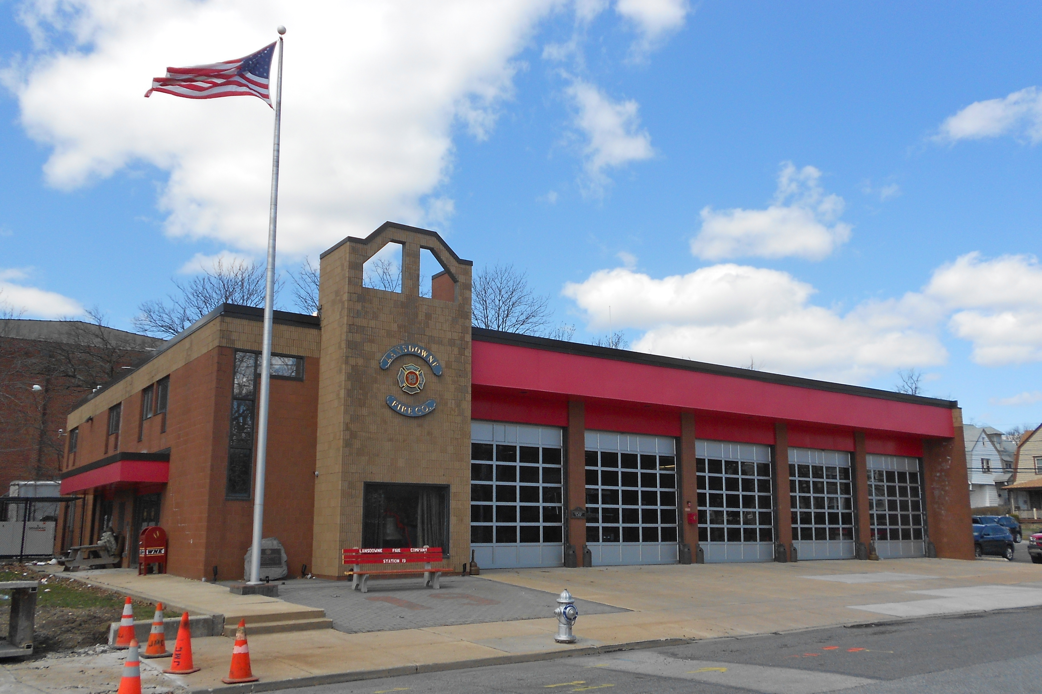 Lansdowne, Pennsylvania Fire Station 19